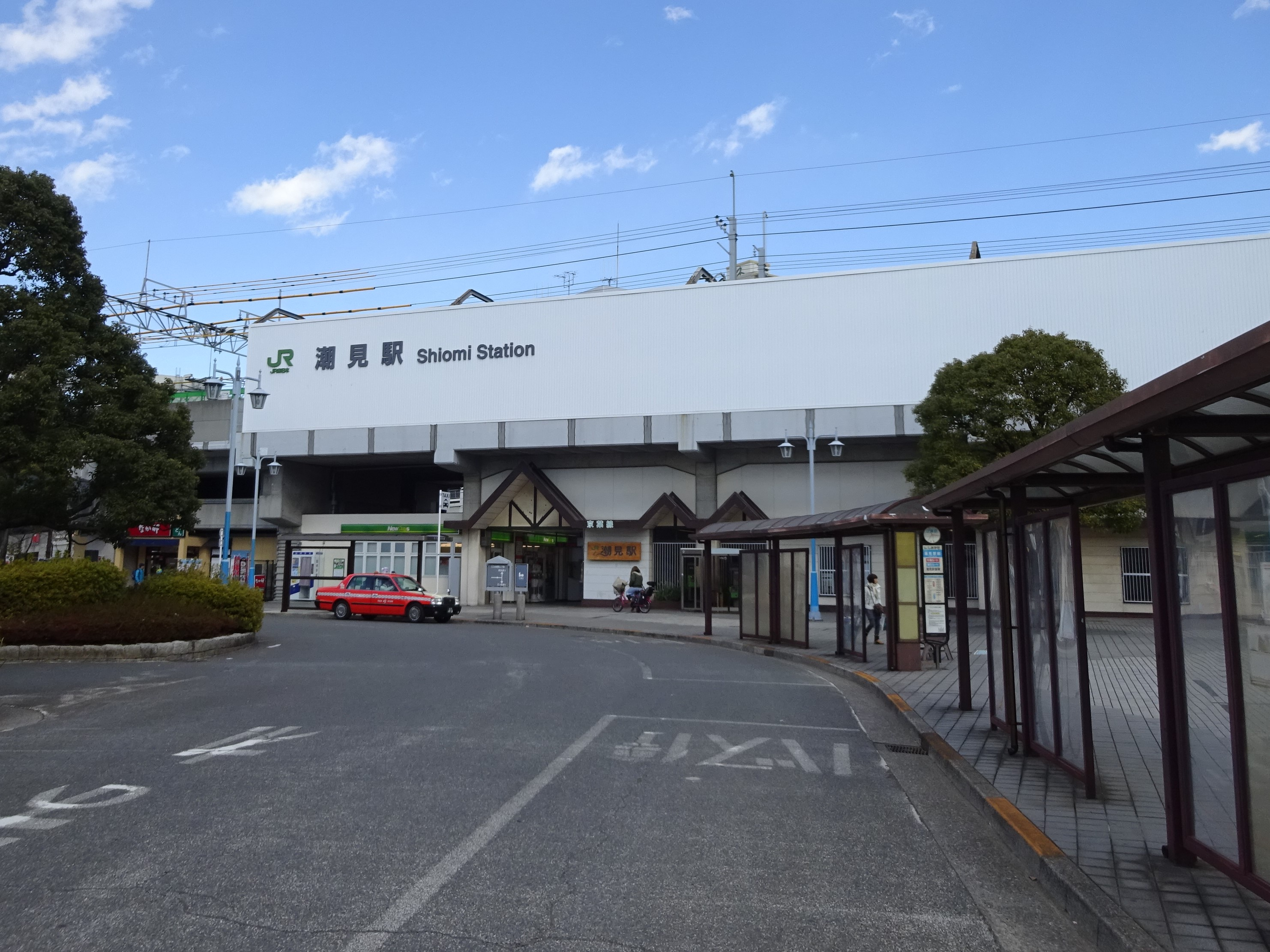 West entrance of Shiomi Station (Tokyo)